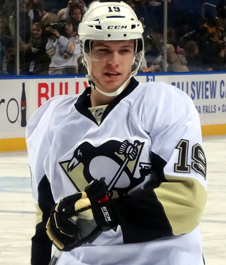 Pittsburgh Penguins forward Beau Bennett in his second NHL game, February 17, 2013 against the Buffalo Sabres at First Niagara Center in Buffalo, PA.